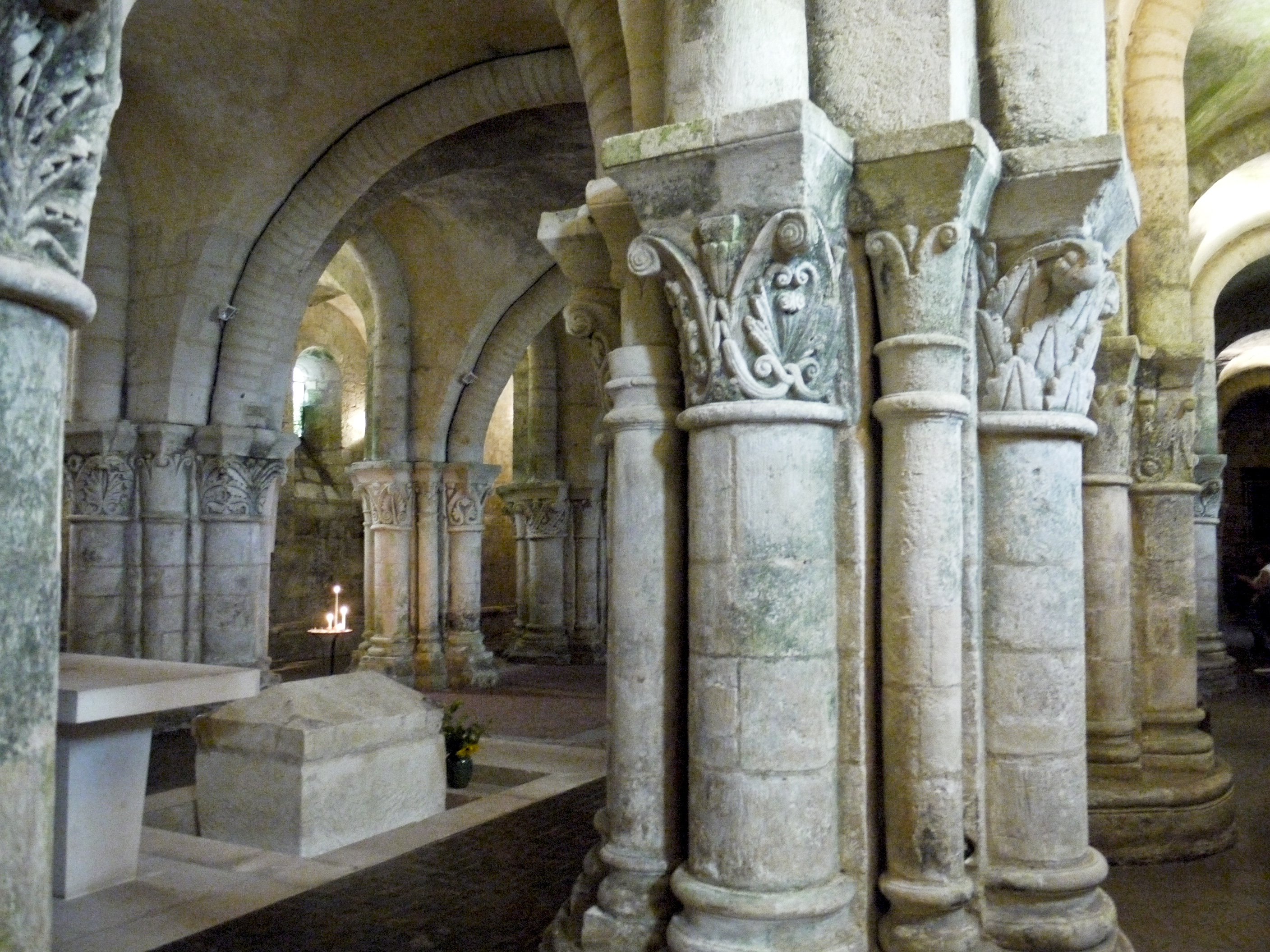 Crypt at Basilique Saint-Eutrope de Saintes, Saintes, France. Cenotaph